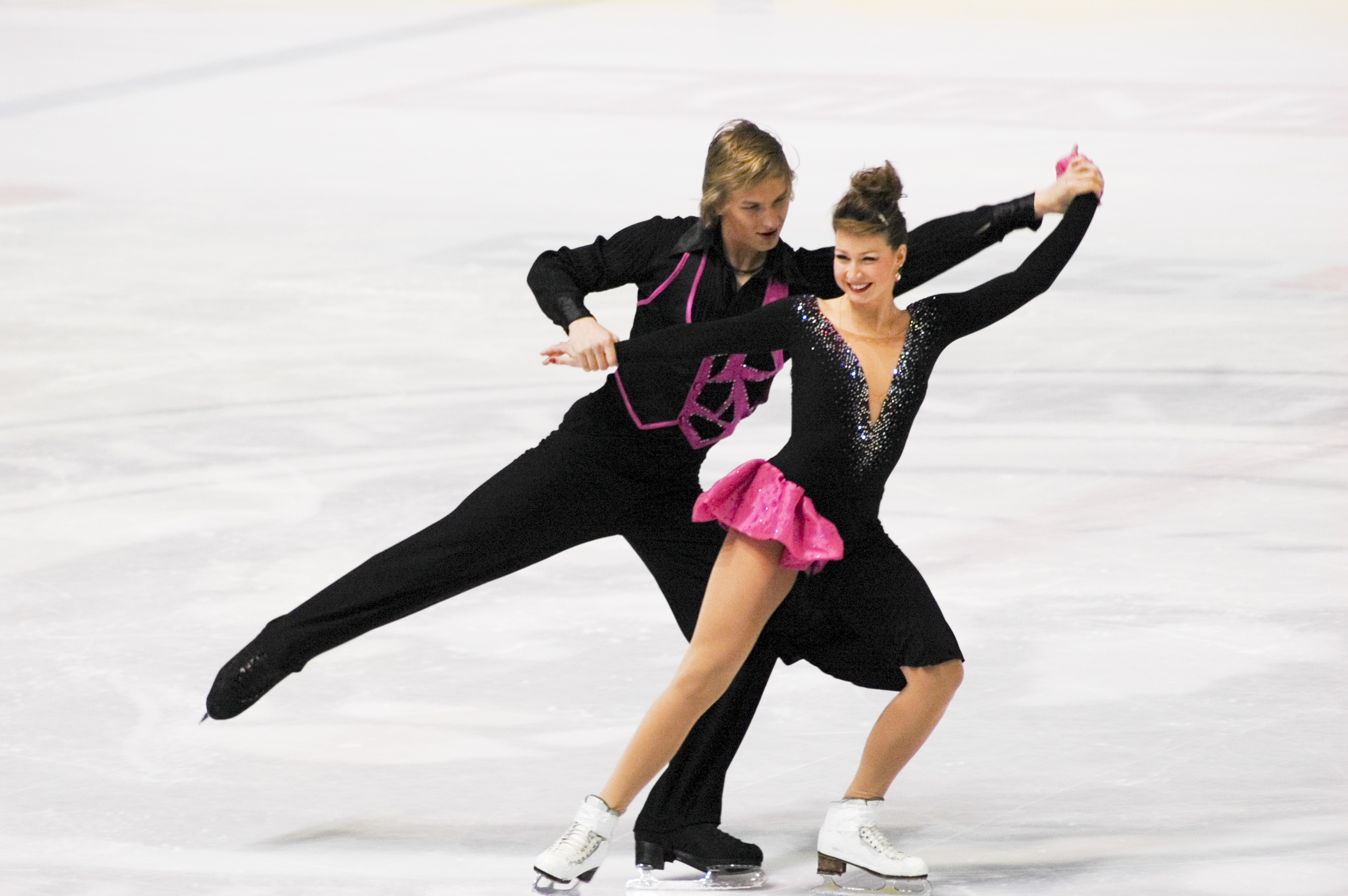 Lucie Mysliveckova and Matej Novak at 43rd Golden Spin of Zagreb in 2010